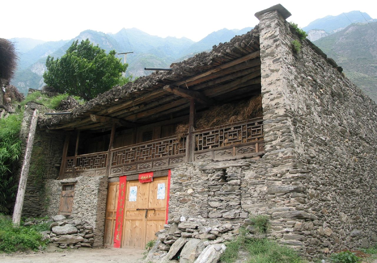 Qiang traditional house near Baodinggou Nature Reserve, Sichuan, China See where the photo was taken at Yuan.CC Maps.